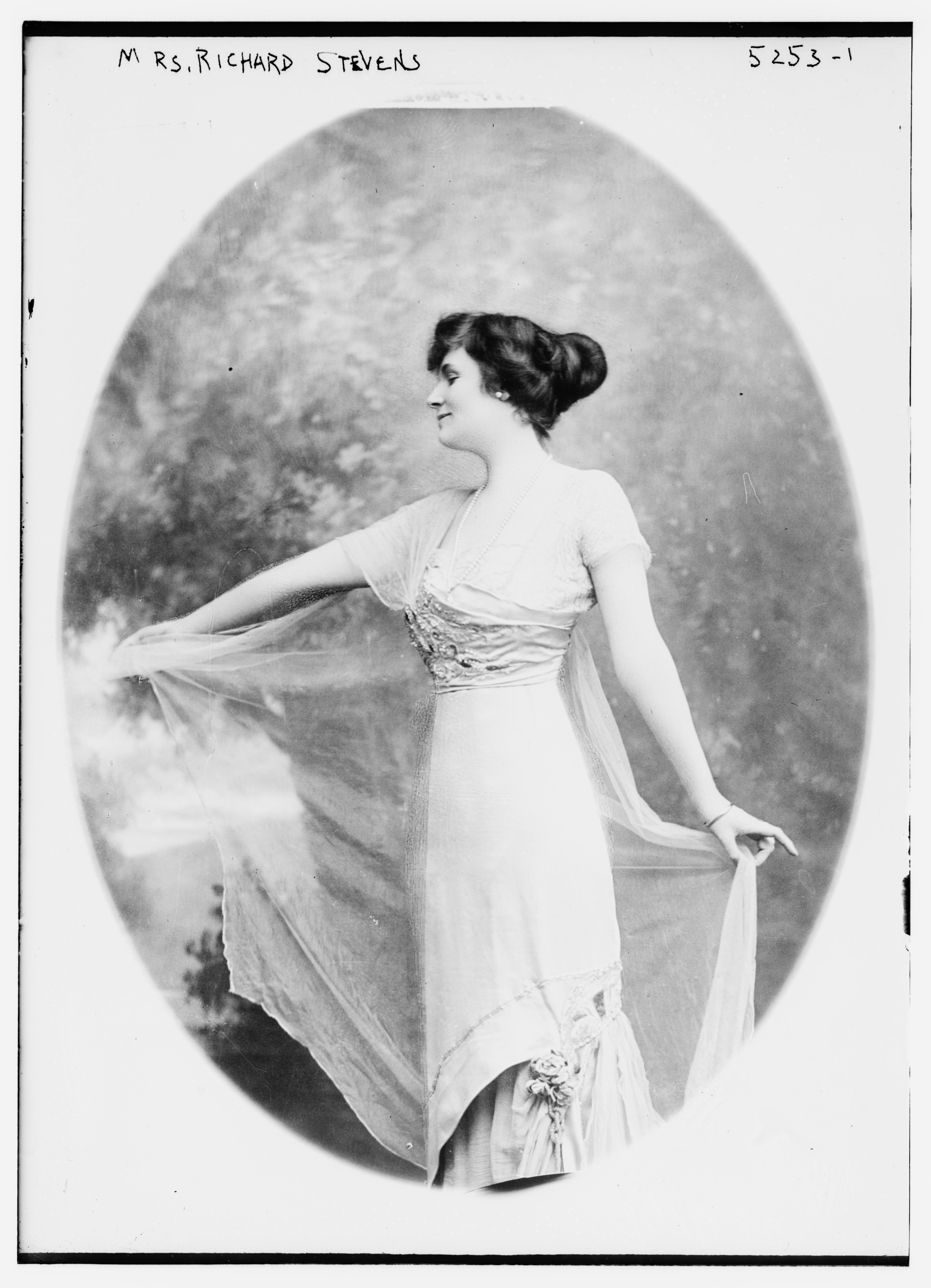 Title: Mrs. Richard Stevens Abstract/medium: 1 negative : glass ; 5 x 7 in. or smaller.